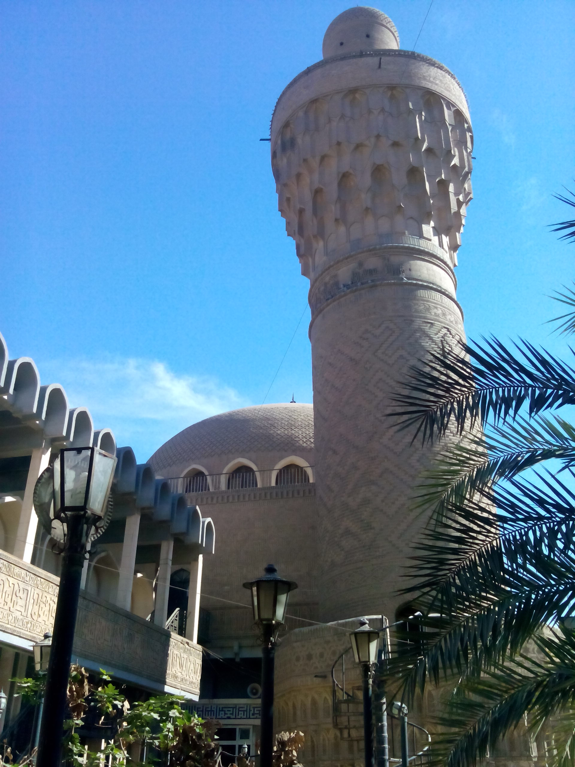 Al-Khulafa Mosque in Baghdad is located in Al-Gomhuria Street near the Spinning Market in Shorja. It is an old mosque. It was demolished and rebuilt in 1957. It contains an ancient minaret built seven centuries ago. It is the oldest architectural monument in Baghdad from the Abbasid Caliphate